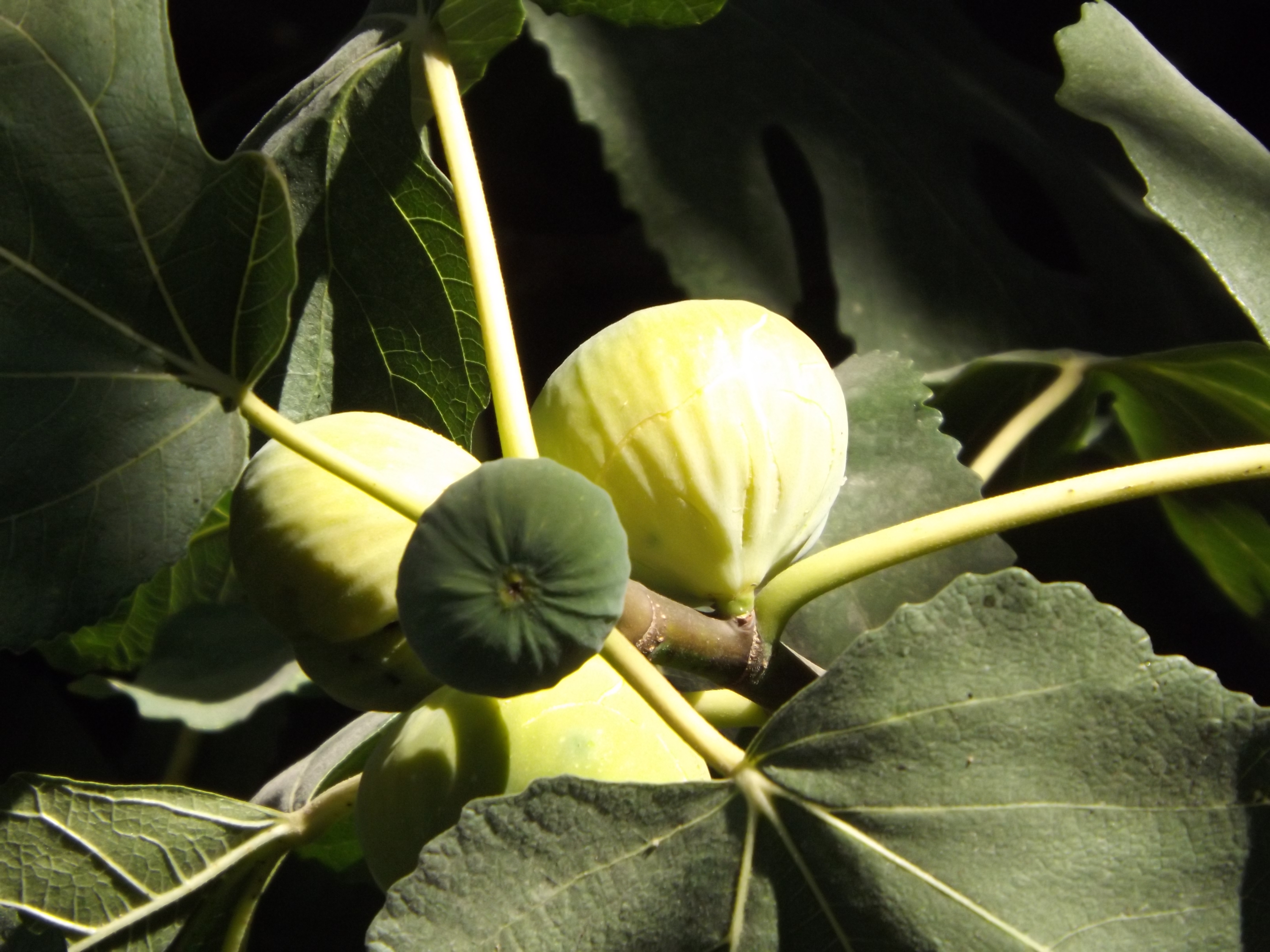 Figs season in Israel